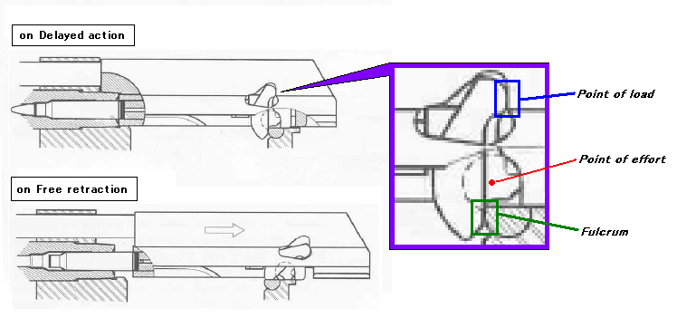 A schematic of the FAMAS rifle's Lever delayed blowback system.